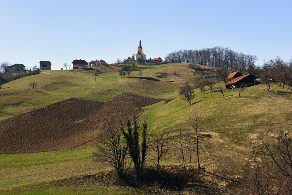 Lopaca, the church of Sta. Anna